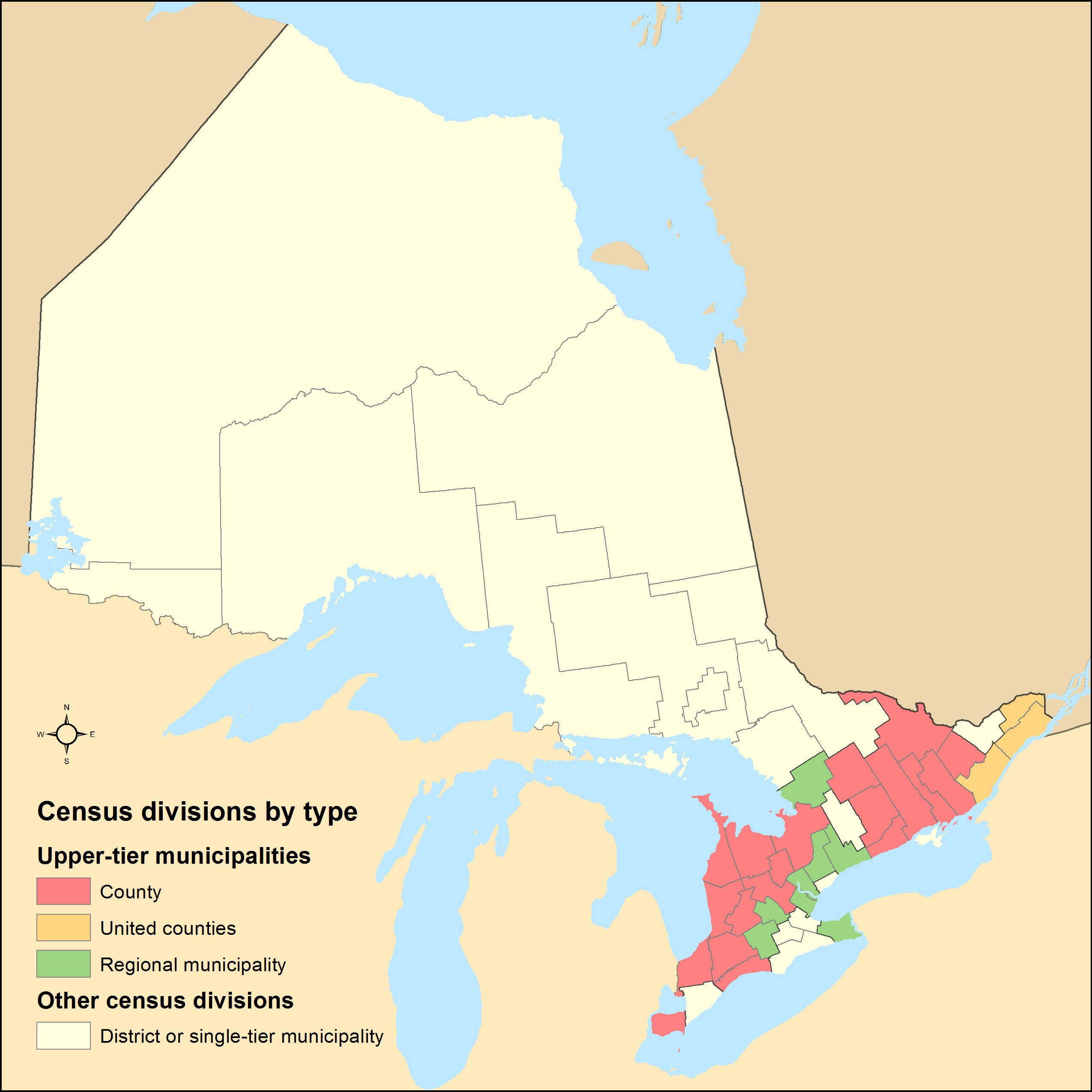 Location of Ontario's 30 upper-tier municipalities among its total 49 census divisions